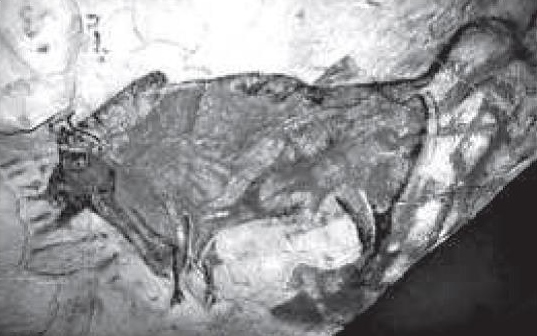 A cave in spain